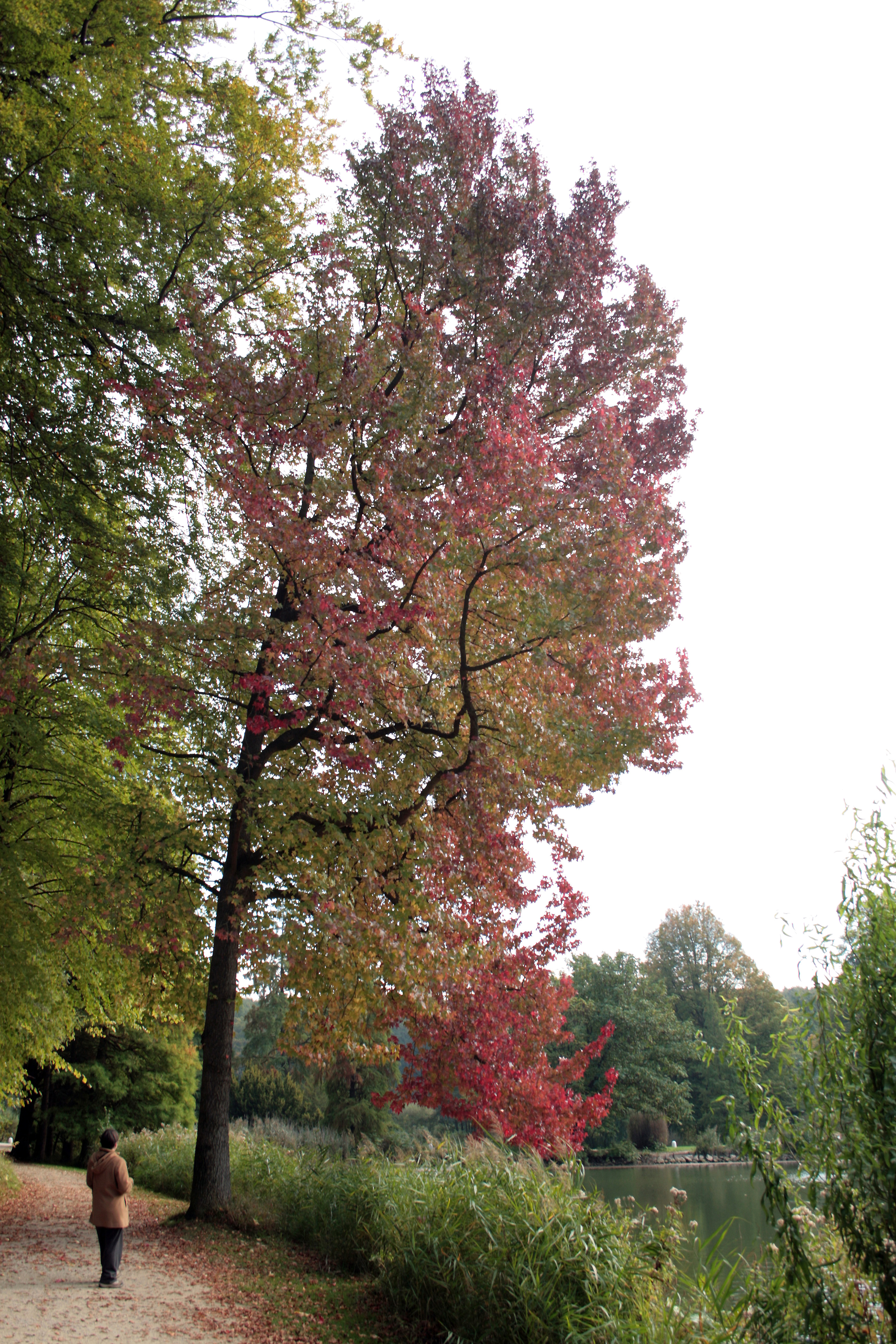 American Sweetgum, Redgum